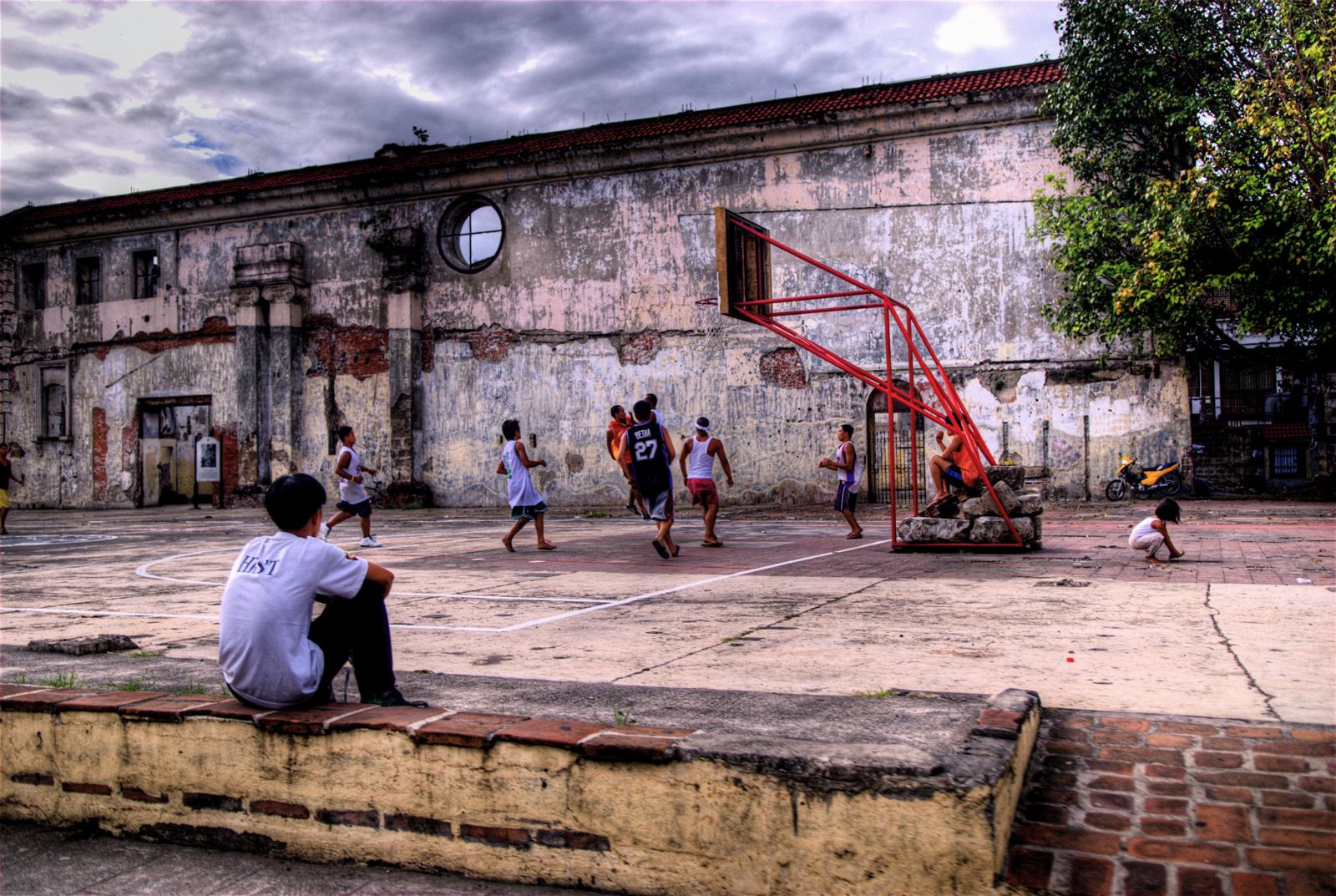 Kids playing basketball in Intramuros, Manila. January 2007.Basketball in Intramuros